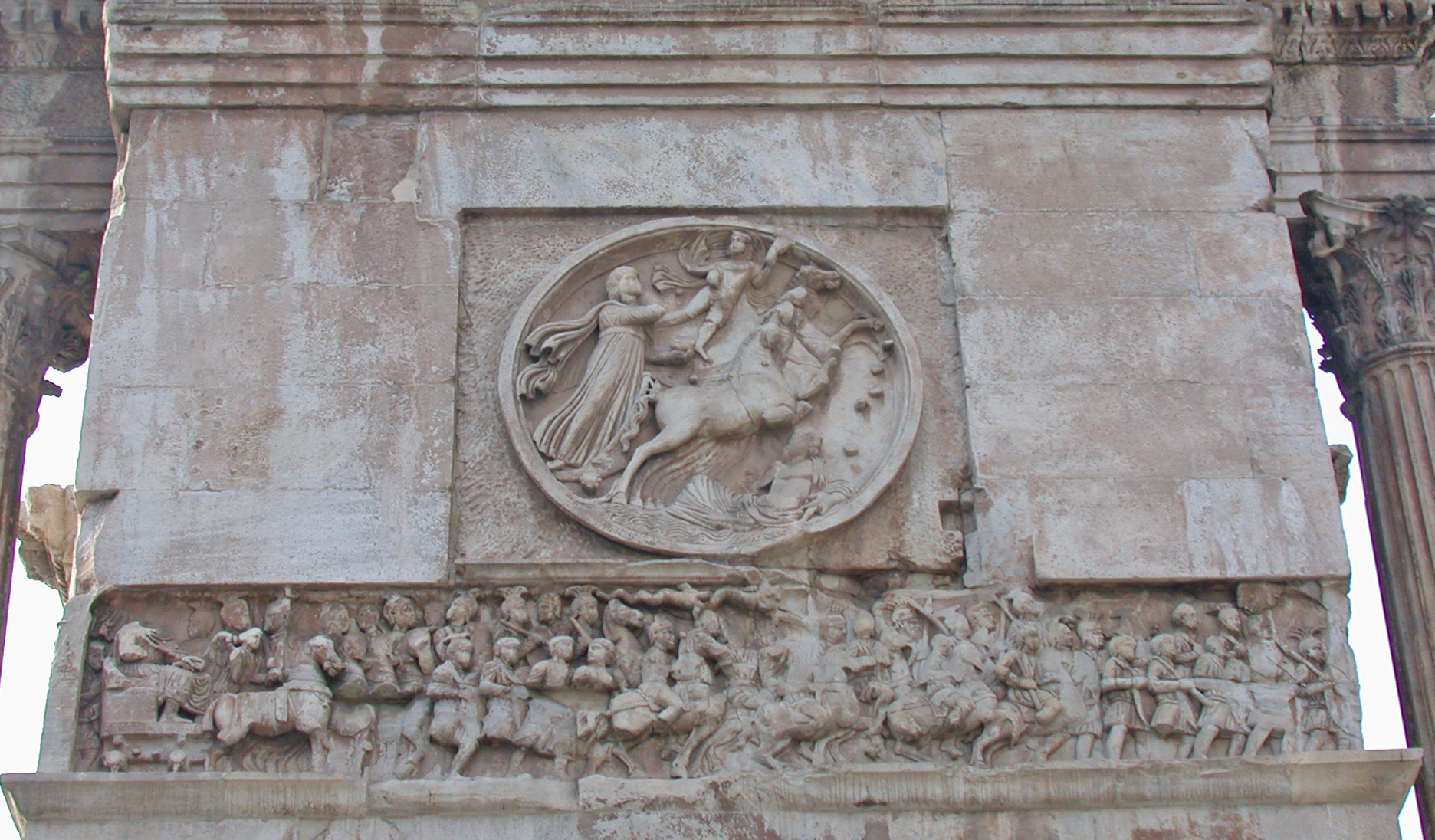 Rome, arch of Constantine, reliefs on east side. Personal photo (november 2005) by MM in it.wiki